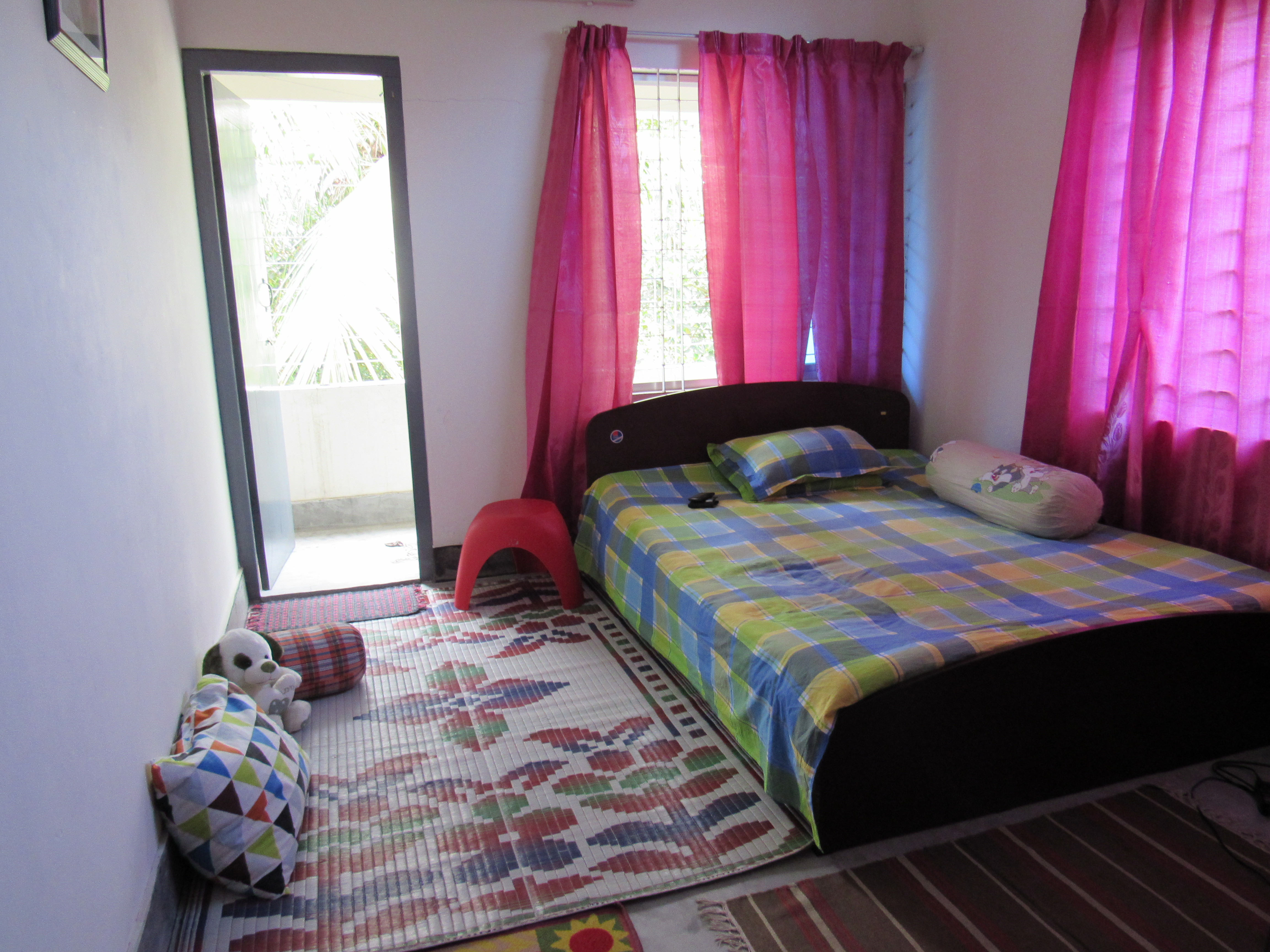 Door open, empty bed with pillow and side pillow